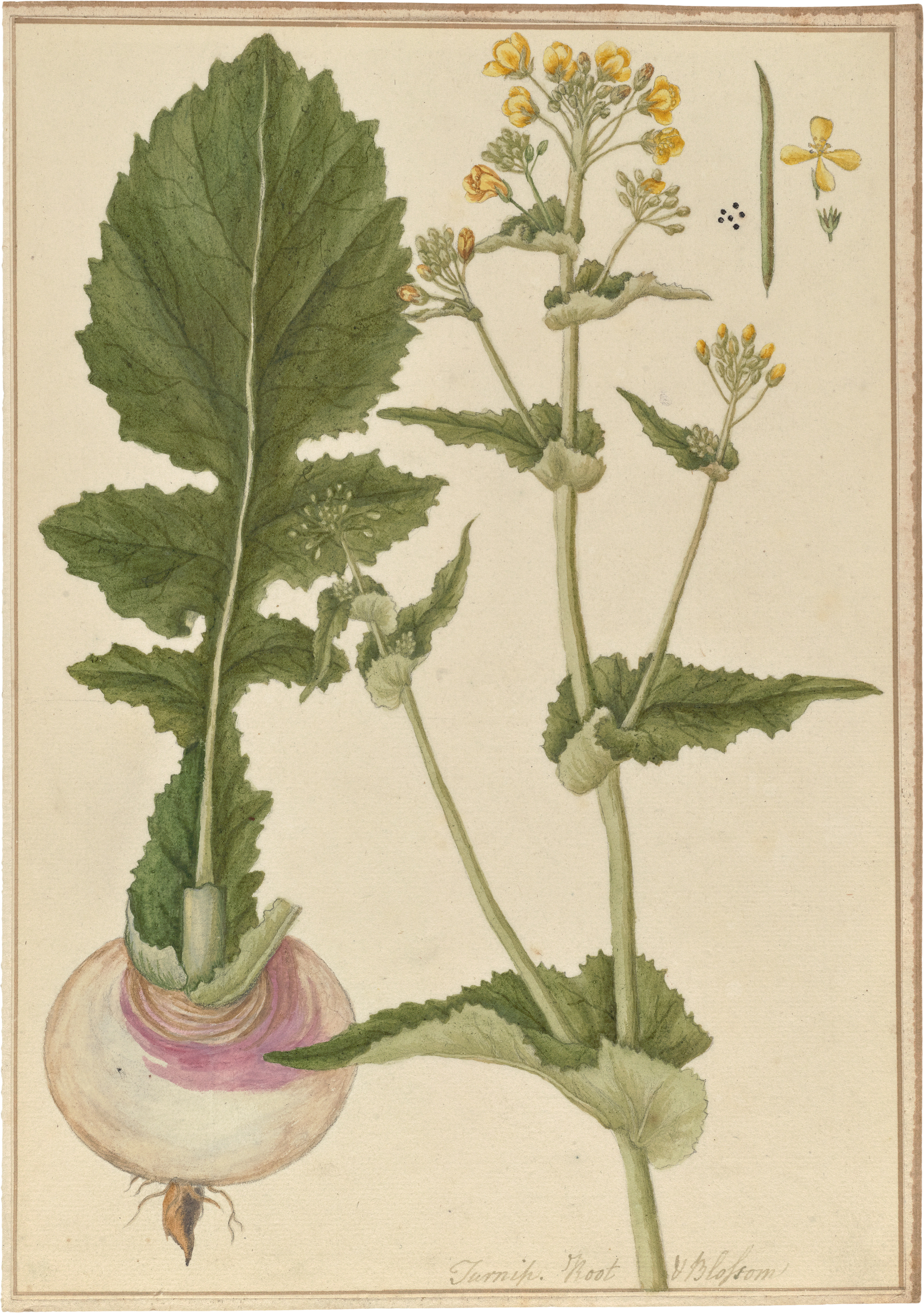 Original watercolor painting of Brassica rapa by Elizabeth Blackwell for her book "A Curious Herbal", published between 1737 and 1739.